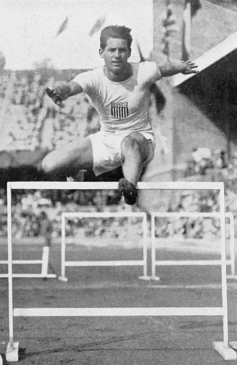 Frederick Kelly the winner of the men's 110 metre hurdles at the 1912 Summer Olympics.